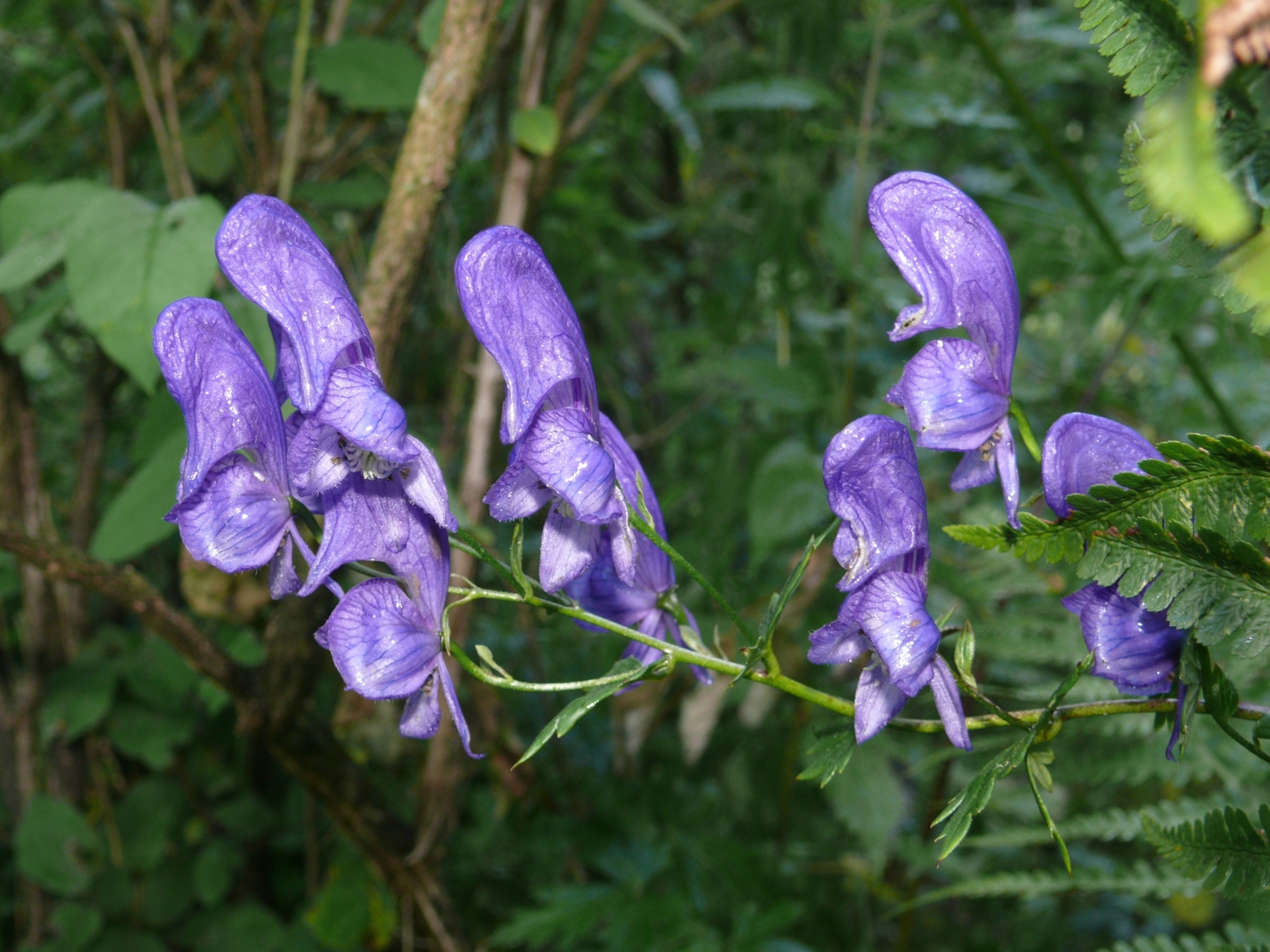 Aconitum variegatum, Härtsfeld, Germany